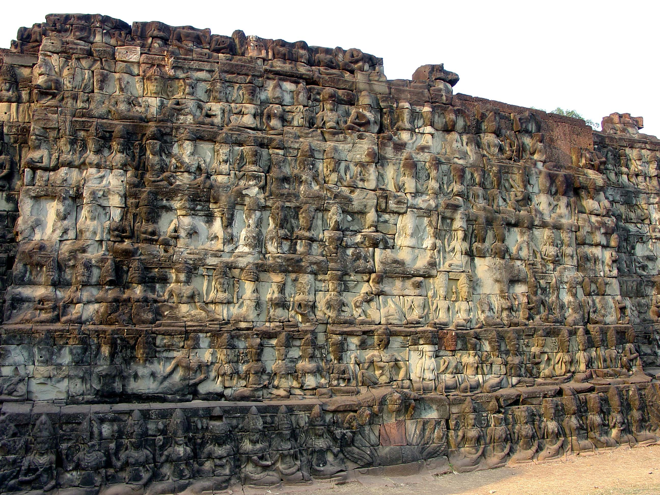 The "Leper King" Terrace is located just north of the Elephant Terrace. It is named, or rather mis-named, for the celebrated statue of Yama, the Lord of the Dead, that once occupied its platform and has now been moved to the National Museum in Phnom Penh for safe-keeping. The 25m (80' long) terrace is shaped like a redented "U". Its north, east, and south walls face outward, and are deeply carved with seated gods and goddesses. Within, and separated by a narrow trench, there is another set of walls, also carved. The inner walls were built first, but then started to collapse, at which point the outer walls were added. The dates of the platform and its associated statue are uncertain. Many authors date both platform and statue to Jayavarman VII, but Freeman and Jacques (pp.109-110) date the platform to Jayavarman VIII, and the statue to even later.